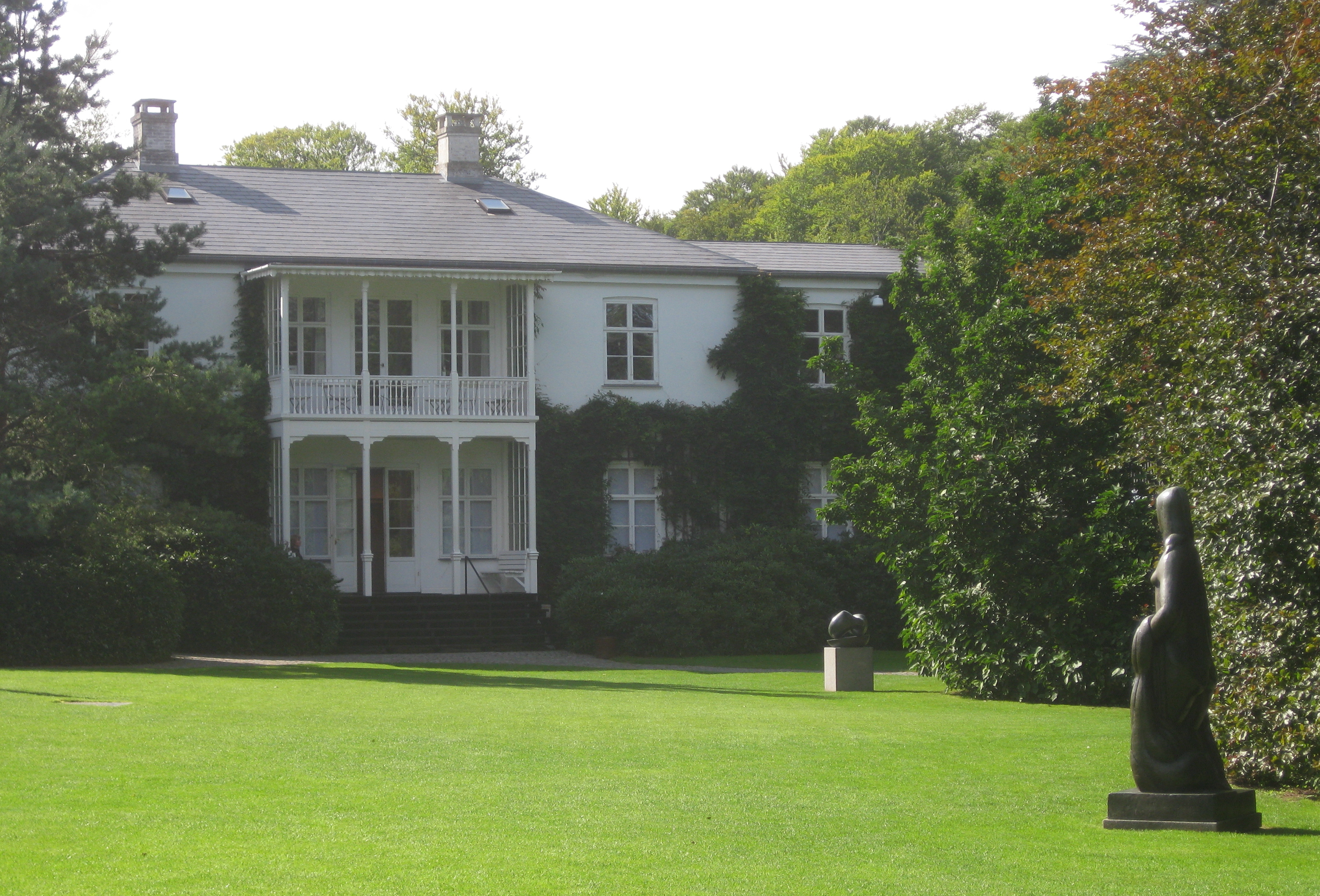 Louisiana museum of modern art in Humlebæk, Denmark